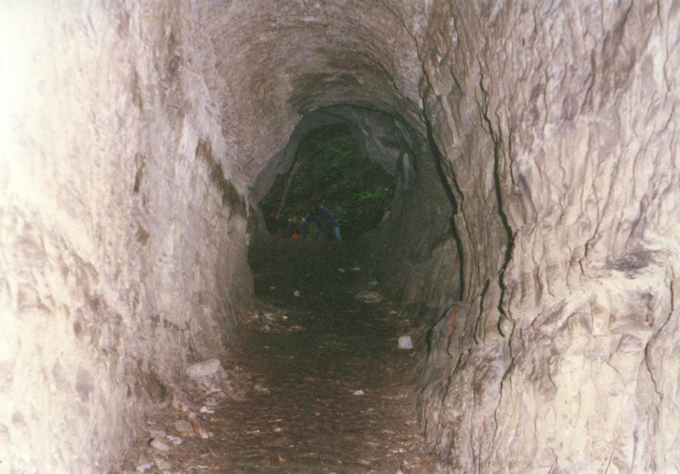 Y-ágú Cave, view toward the entrance (Pomáz)